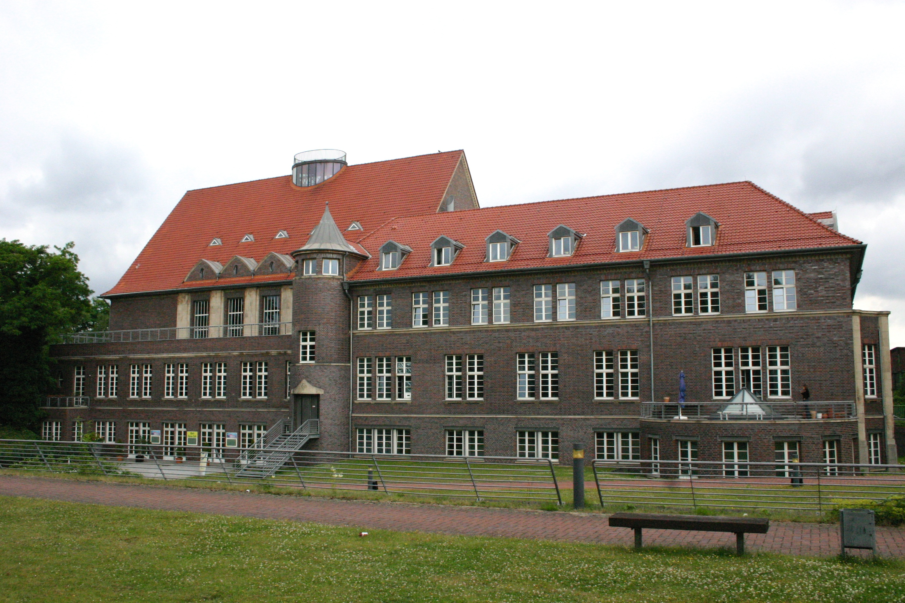 Former guest-house of the Gutehoffnungshuette (Oberhausen, Germany)